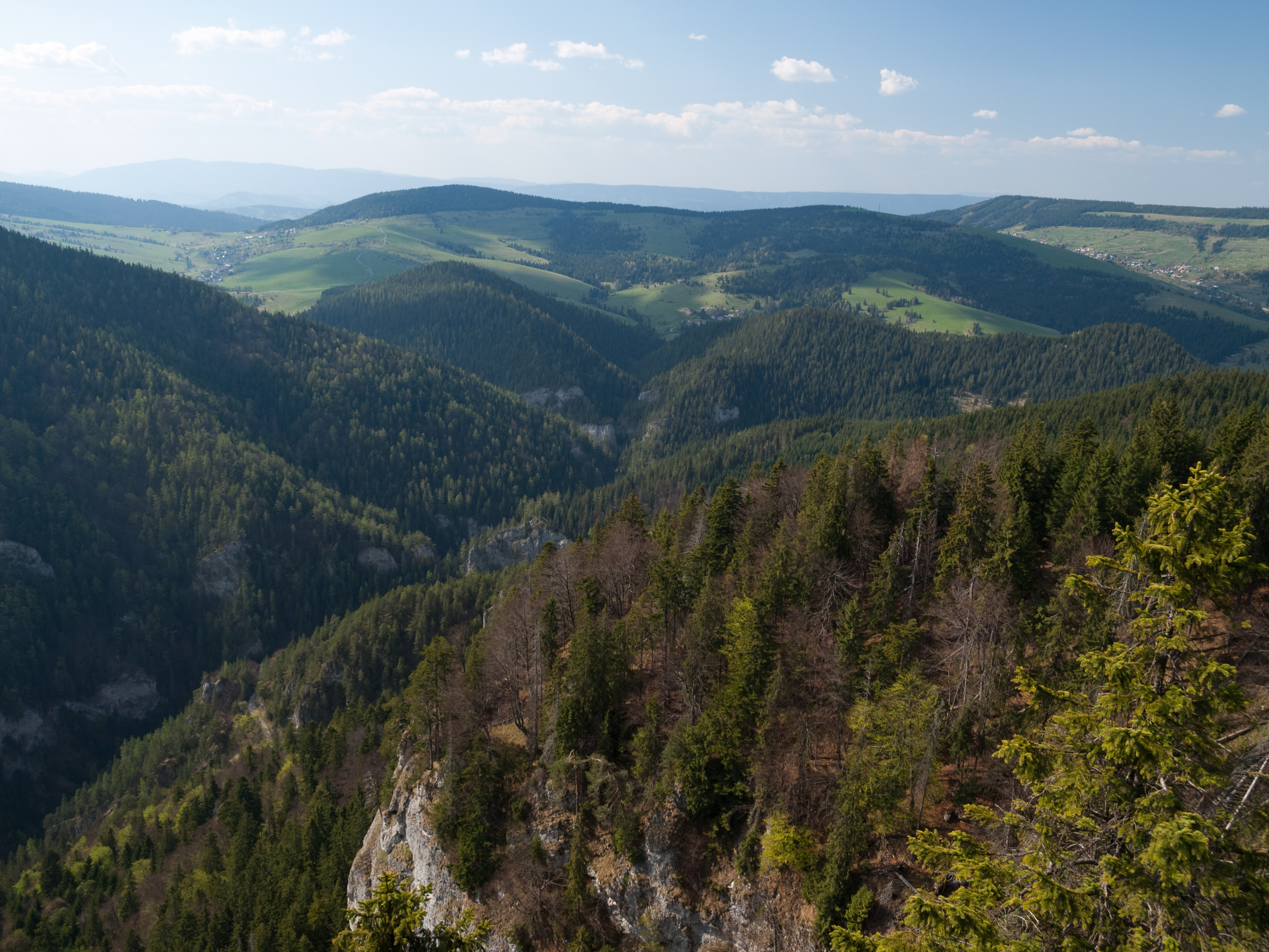 Kvačianska valley – view from Ostrý vrch.